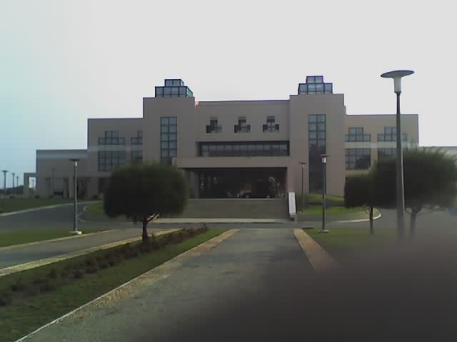 Taken by Guido Sohne with a Motorola RAZR camera phone. Will replace with a better picture soon!